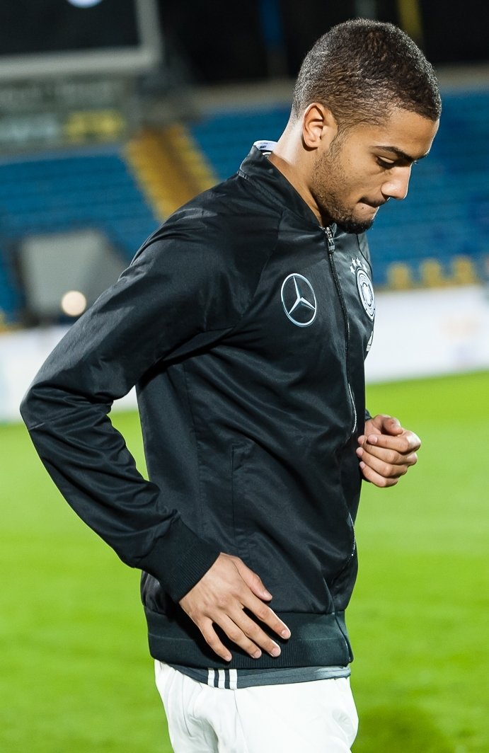 Jeremy Toljan